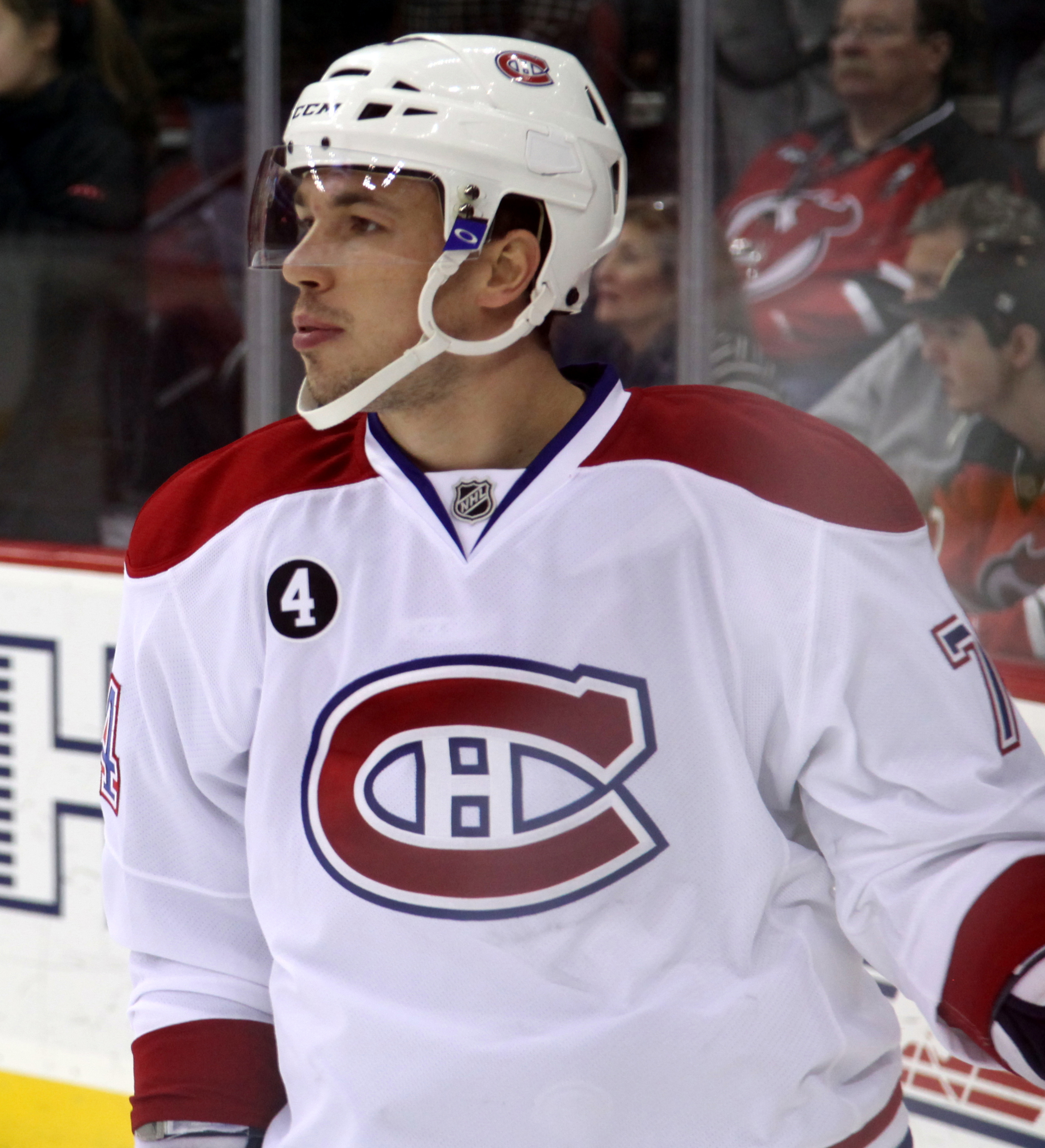 Alexei Emelin in January 2015.